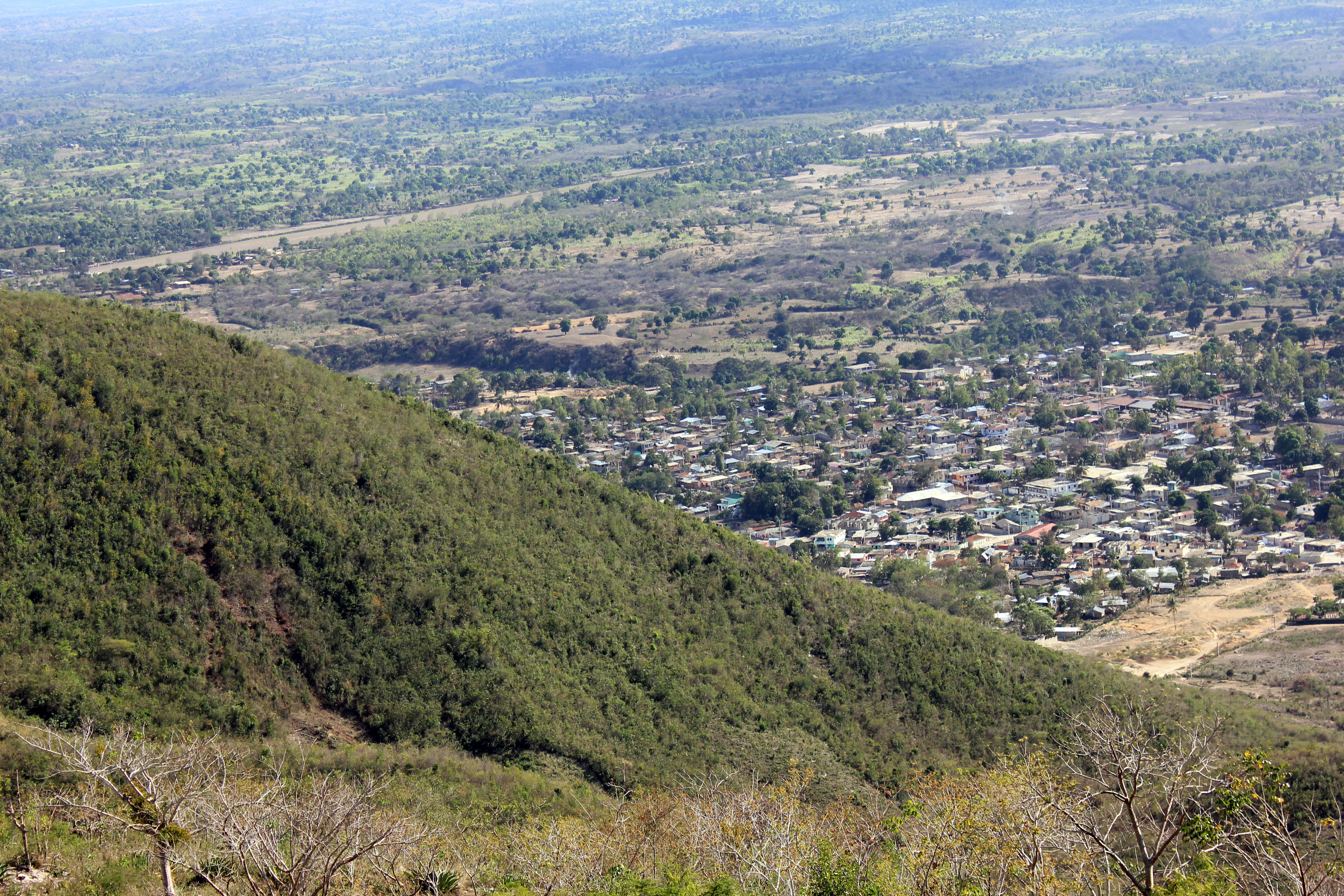 Pictures, landscapes, and places in the country of Haiti Town of Pignon from the mountain